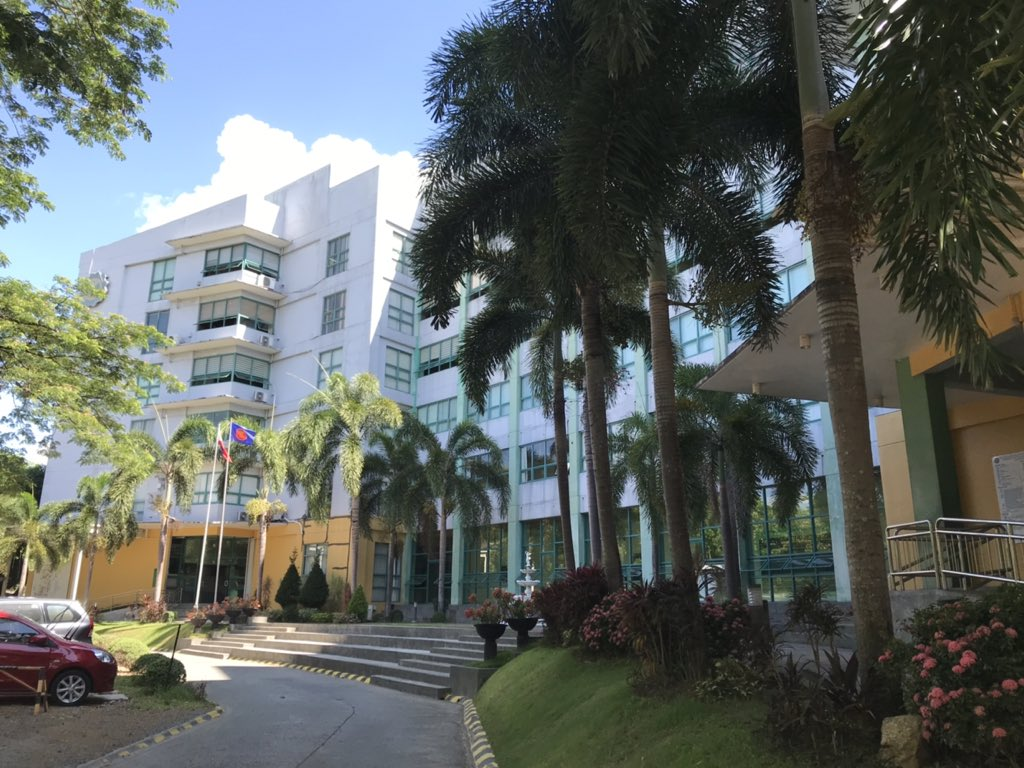 DLSMHSI's Wang Building facade